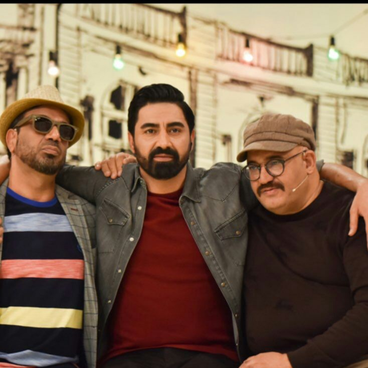 Cheheltike